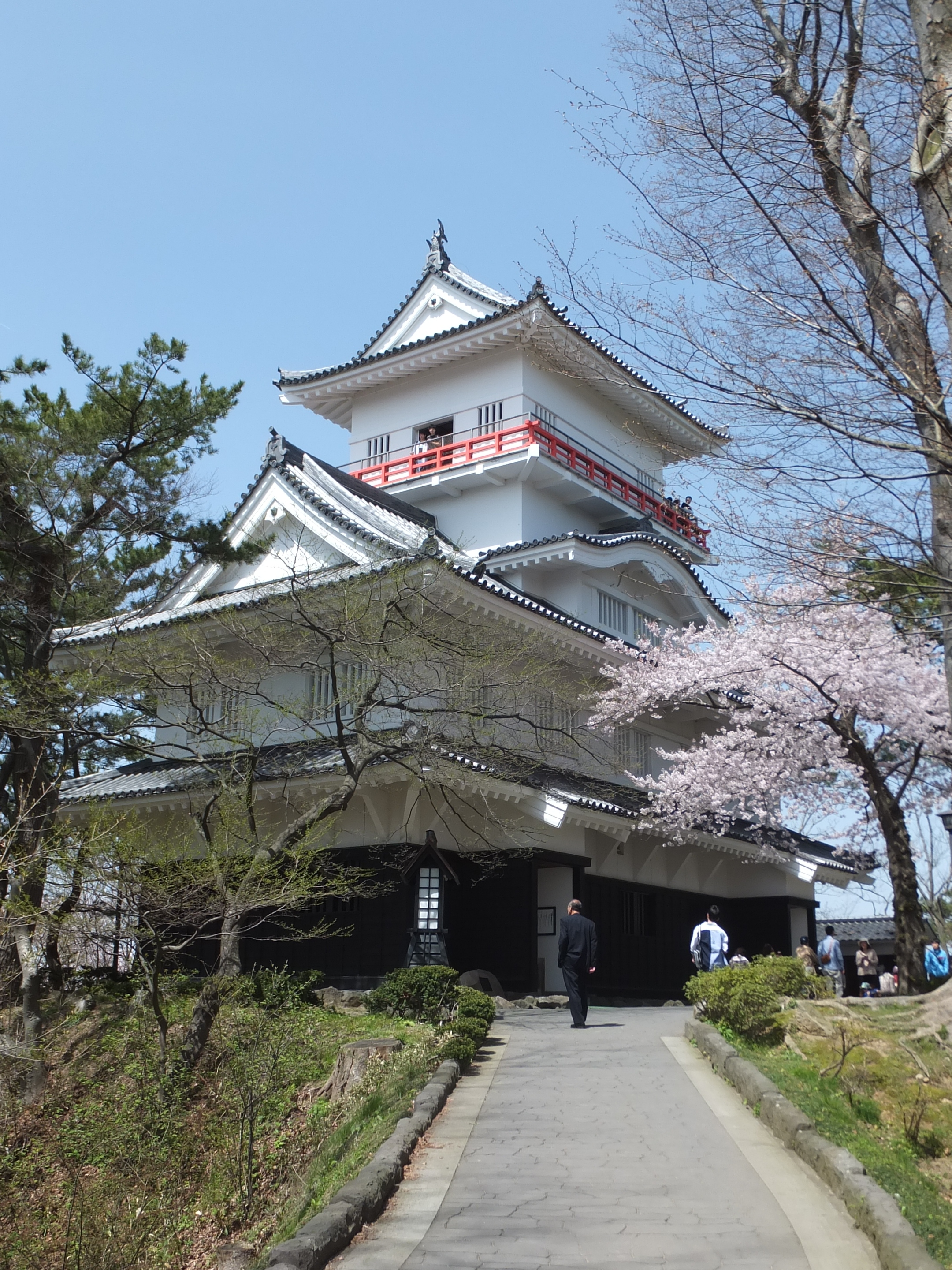 "Osumi-Yagura" turret of the Kubota Castle in Akita City, Japan